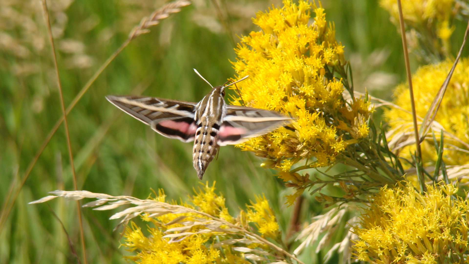 White-lined sphinx at the Anasazi Heritage Center in Montezuma County, Colorado